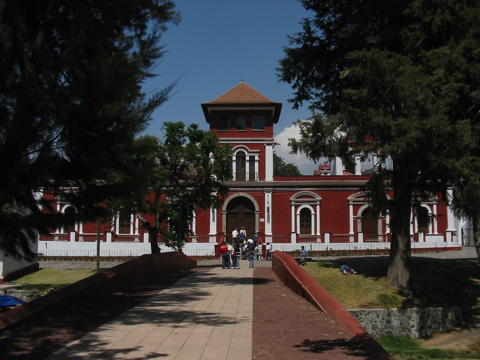 Front view of main house at Hacienda Panoaya where Sor Juana Ines de la Cruz spent part of her childhood. It is now a museum dedicated to her.